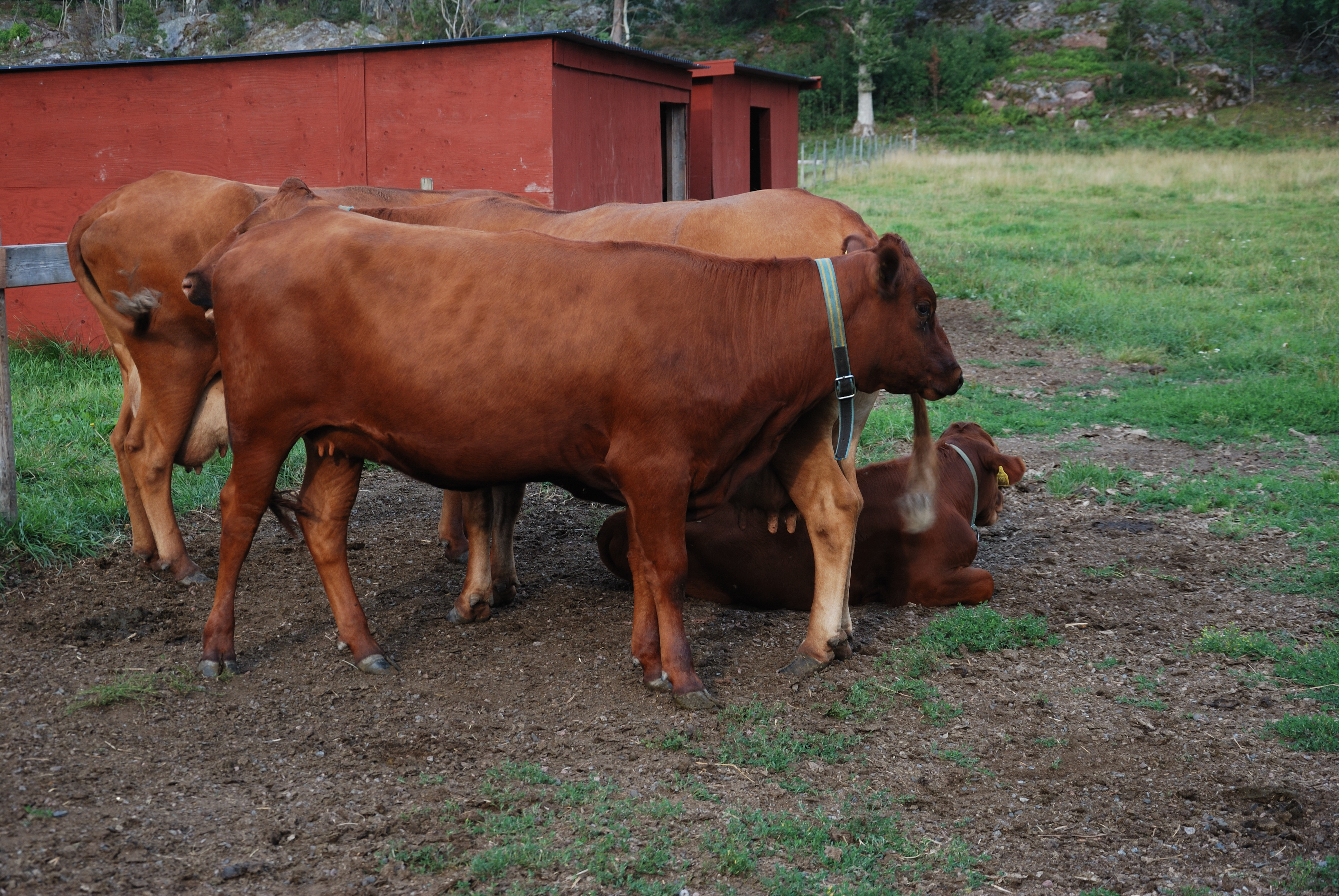 Rödkulla (aka SRB, Svensk Röd Boskap) a traditional swedish breed no longer used in commercial production.